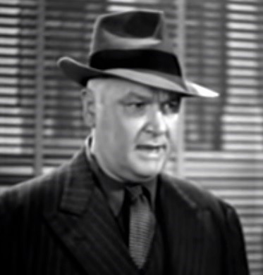 Charles C. Wilson in Lady Gangster - cropped screenshot